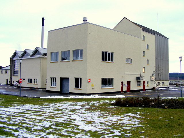 Aultmore Distillery